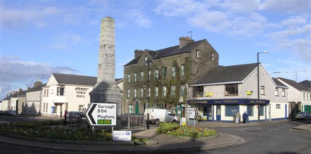 Kilrea The sharp contrast from the sun wasn't helpful for taking pictures.